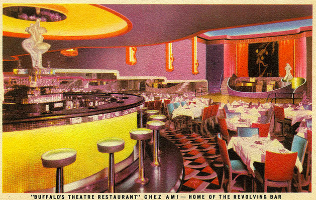 Advertisement from the 1910s